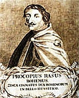 Prokop the Great